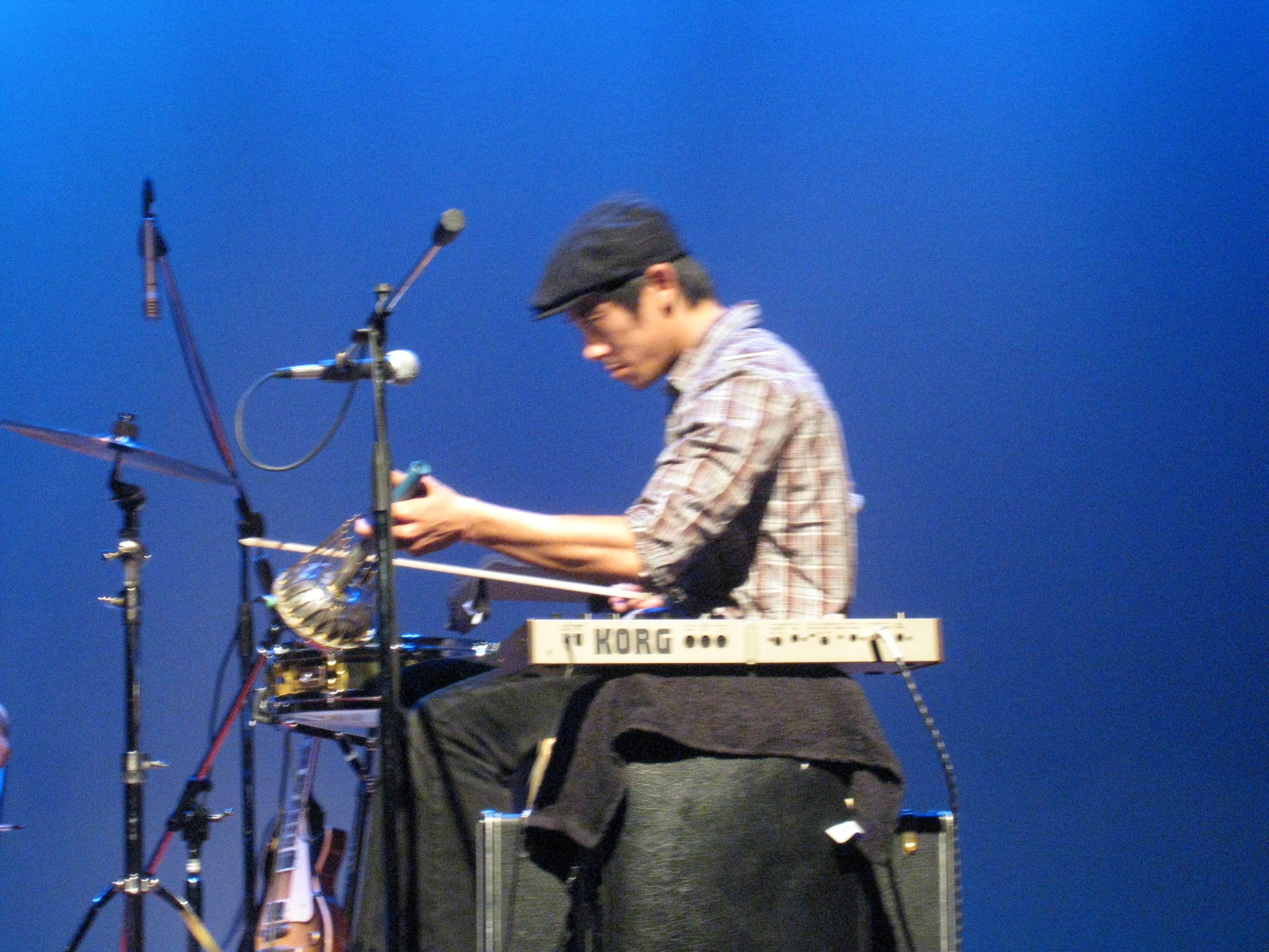 Alex Wong playing Waterphone at Attucks Theatre in Norfolk, VA